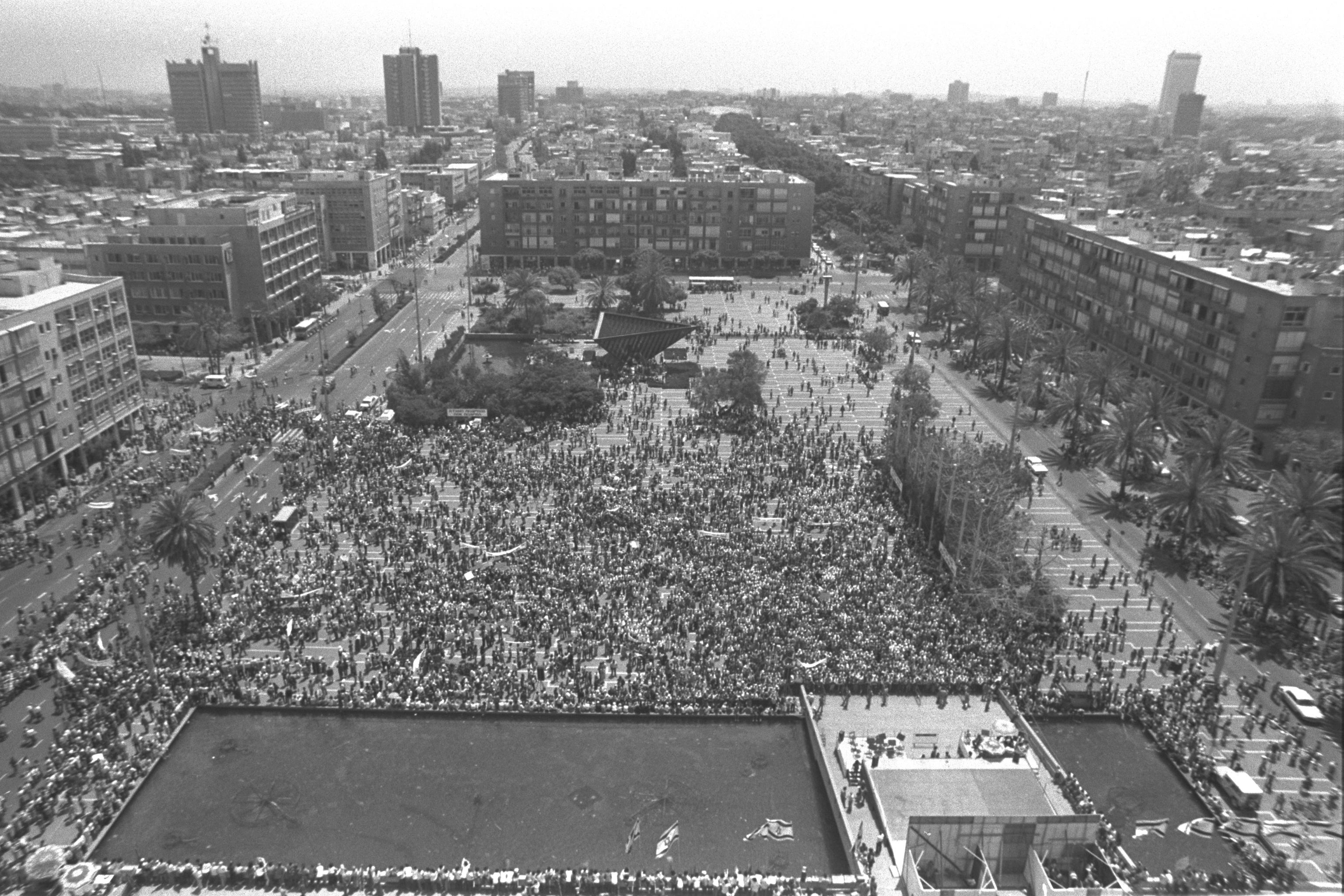 A general view of Tel Aviv's Malchei Yisrael Square during the May Day Parade. כיכר מלכי ישראל בתל אביב במהלך האחד במאי Photo: Yaakov Saar (1951–) Alternative names SA'AR YA'ACOV; Jacob Saar; Saʻar, YaʻaḳovDescriptionIsraeli photographerDate of birth 1951 Authority control : Q28751896 VIAF: 298161188 NLI: 001394176 creator QS:P170,Q28751896 , 05/01/1980